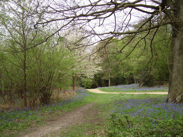 The Woodland Walk at Leith Hill Place woods